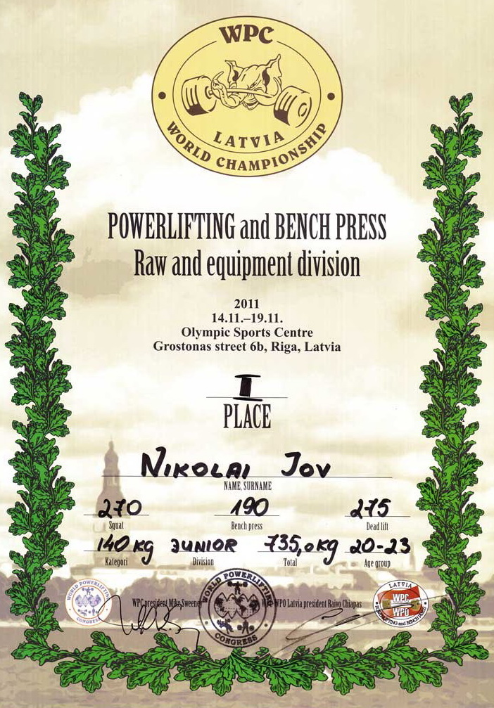 WPC Latvia